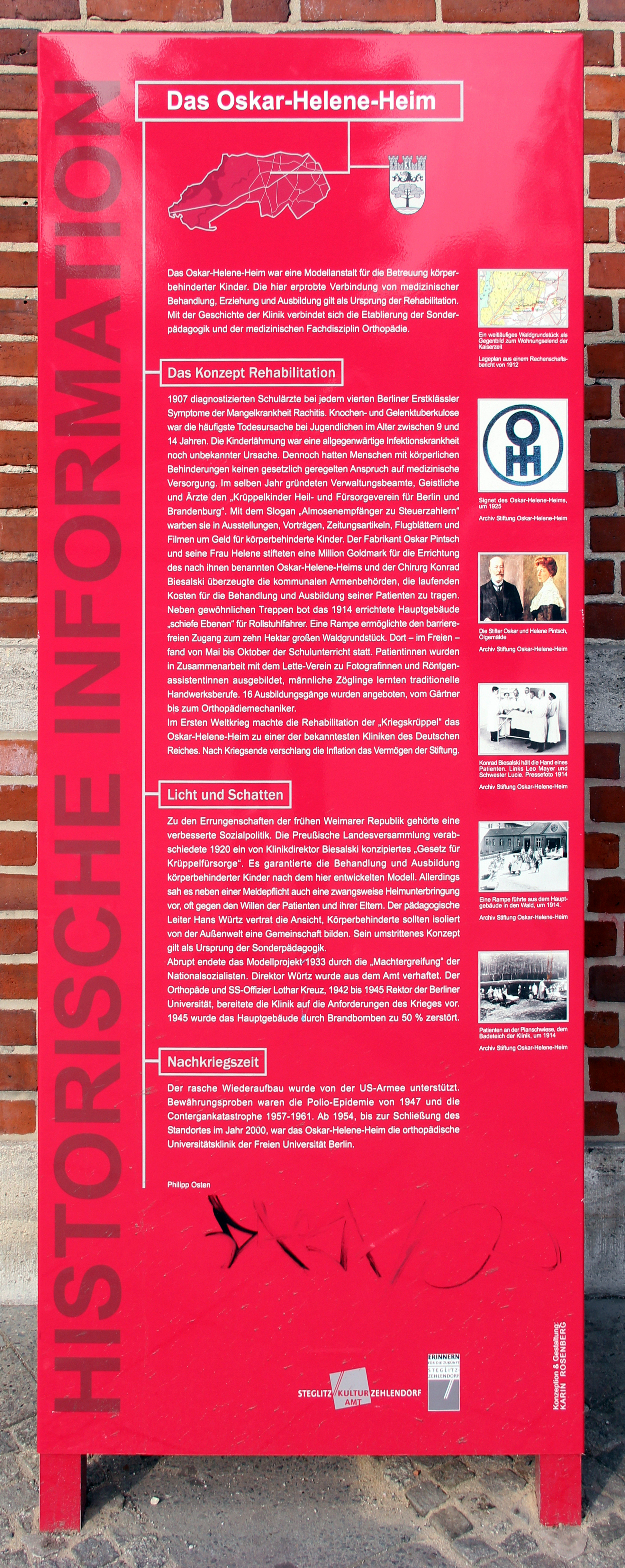 Memorial plaque, Oskar-Helene-Heim, Clayallee 223, Berlin-Dahlem, Germany